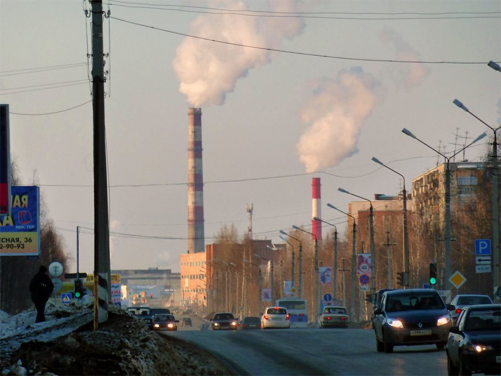 Mondi Syktyvkar view from Bumazhnikov ave